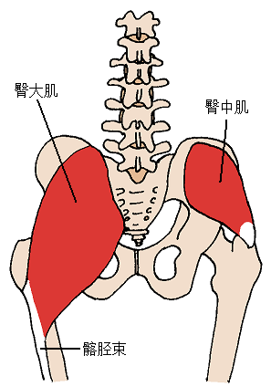 Beth ohara~commonswiki创作了这幅图像。